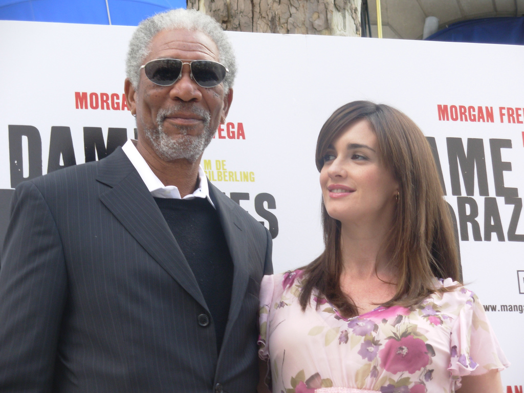 Morgan Freeman and Paz Vega at the presentation of the film 10 Items or Less in Madrid (Spain).Presentación de Película